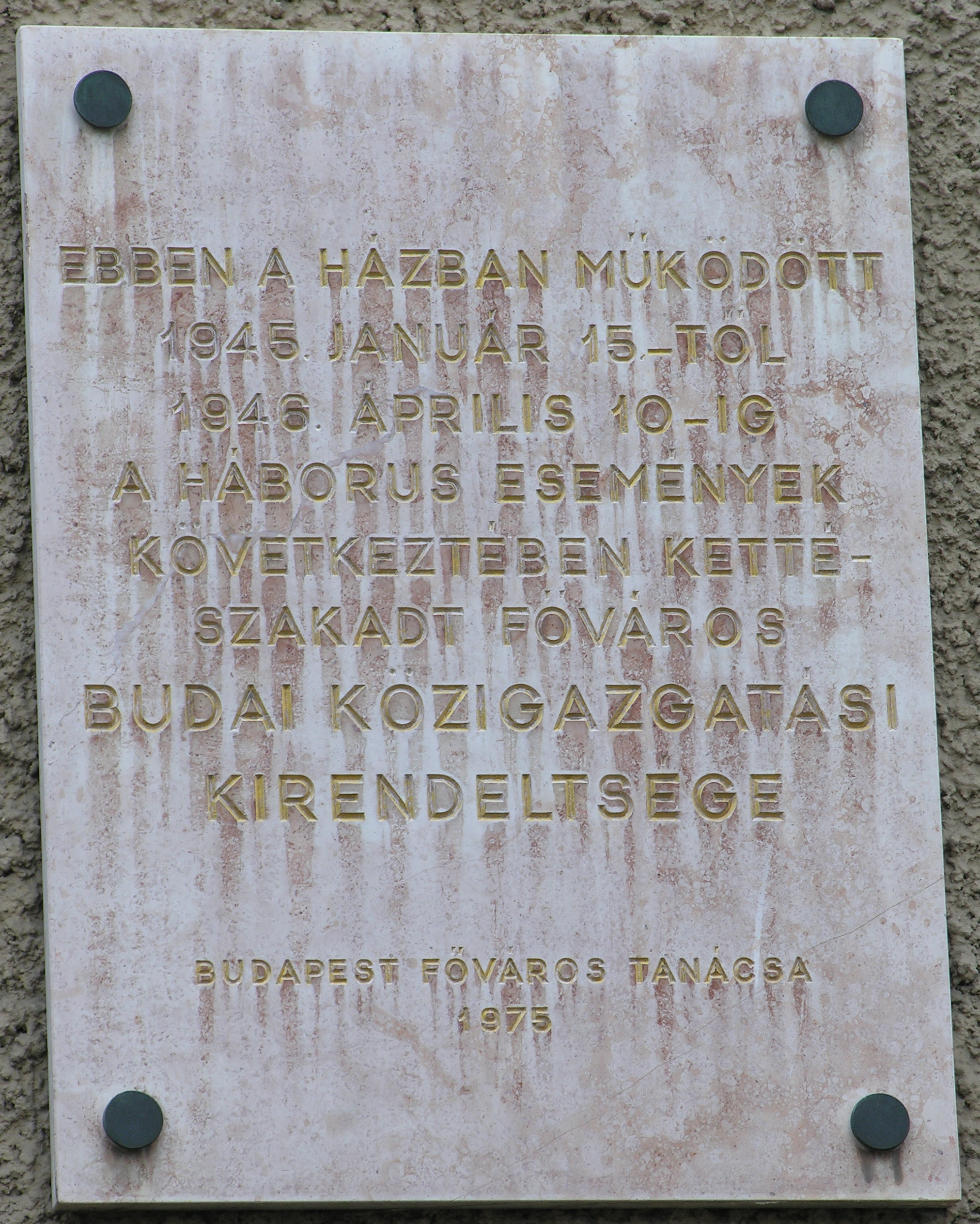 Commemorative plaque of Buda Public Administration Branch (Budapest District II, Tárogató Street No 2-4)